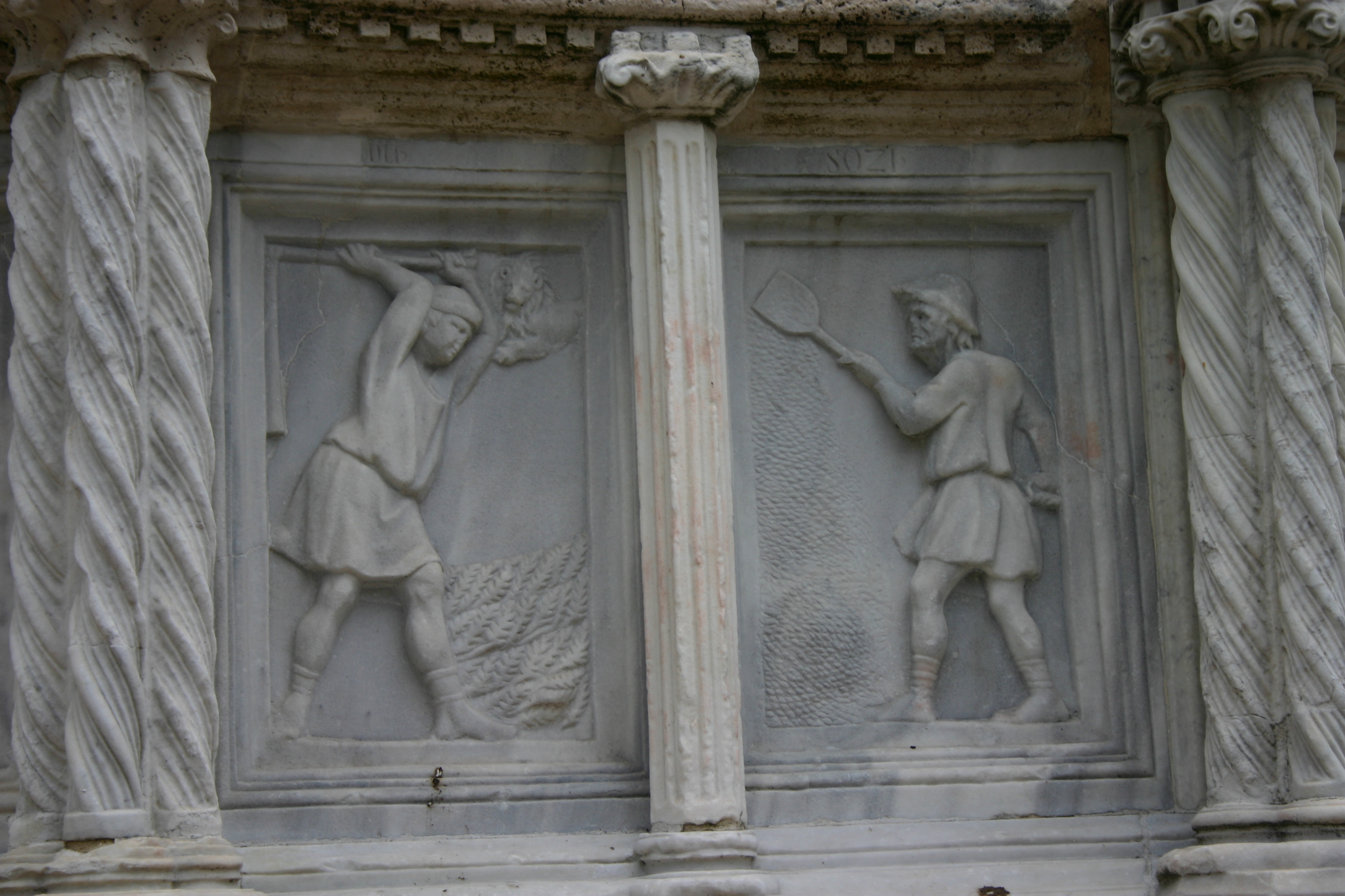 Perugia, the Fontana Maggiore (Main Fountain), sculpted after 1275 by Nicola Pisano and Giovanni Pisano. This image belongs to the series depicting human activities through the year. Here are portraied human activities taking place in the month of July.